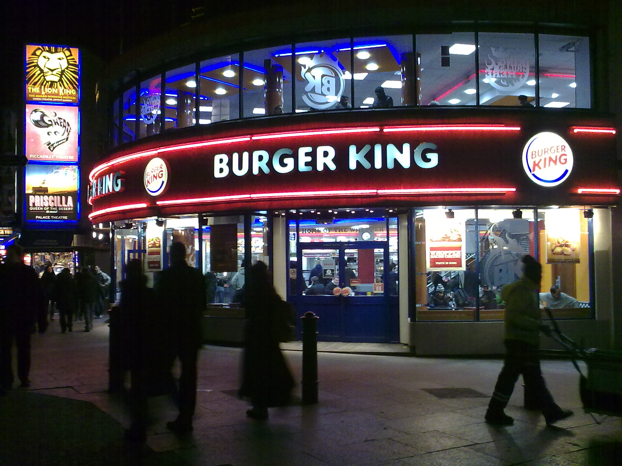 Burger King Branch, Leicester Square, London, UK